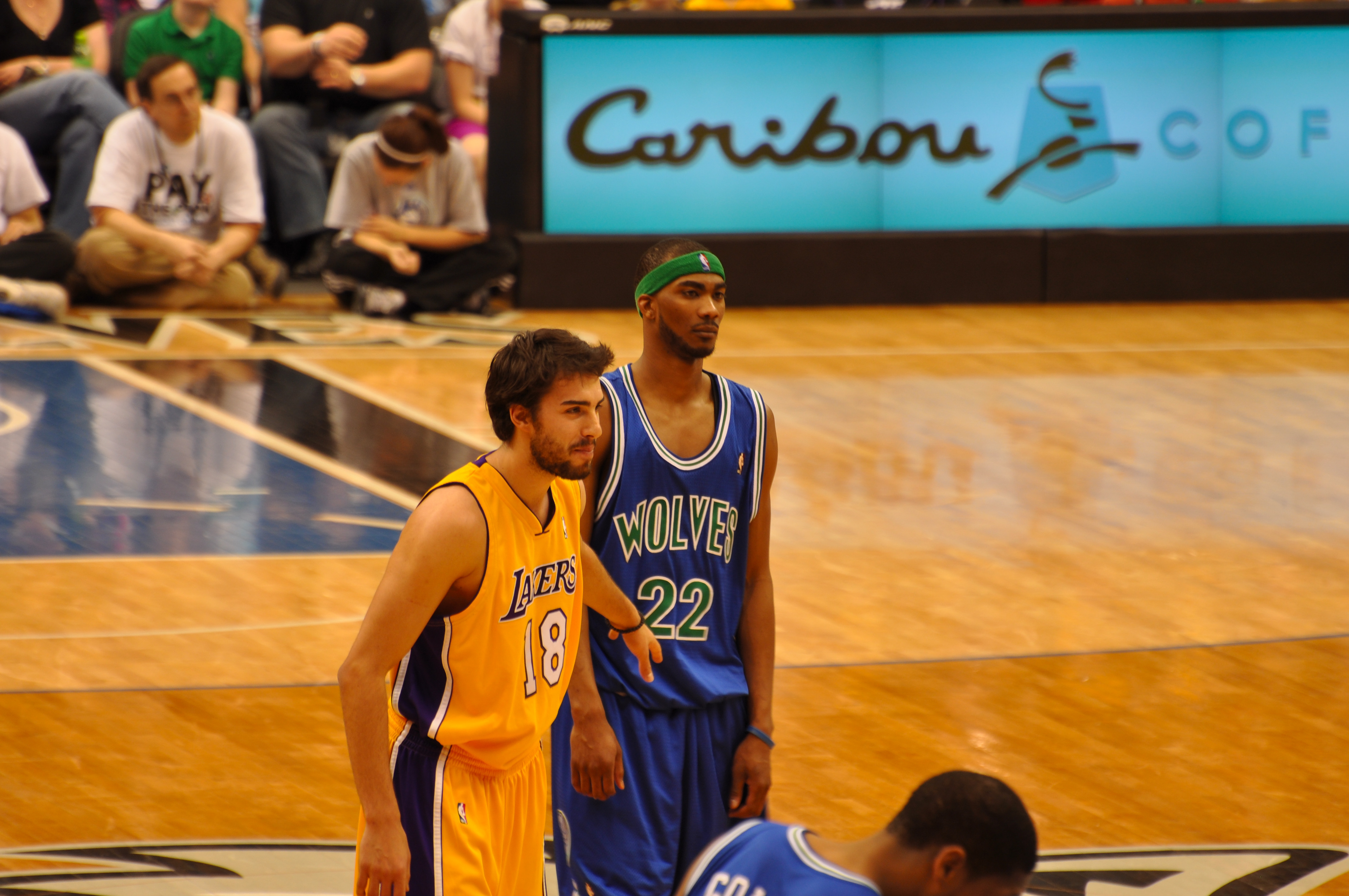 Sasha Vuajcic of the Los Angeles Lakers (18), Corey Brewer of the Minnesota Timberwolves.